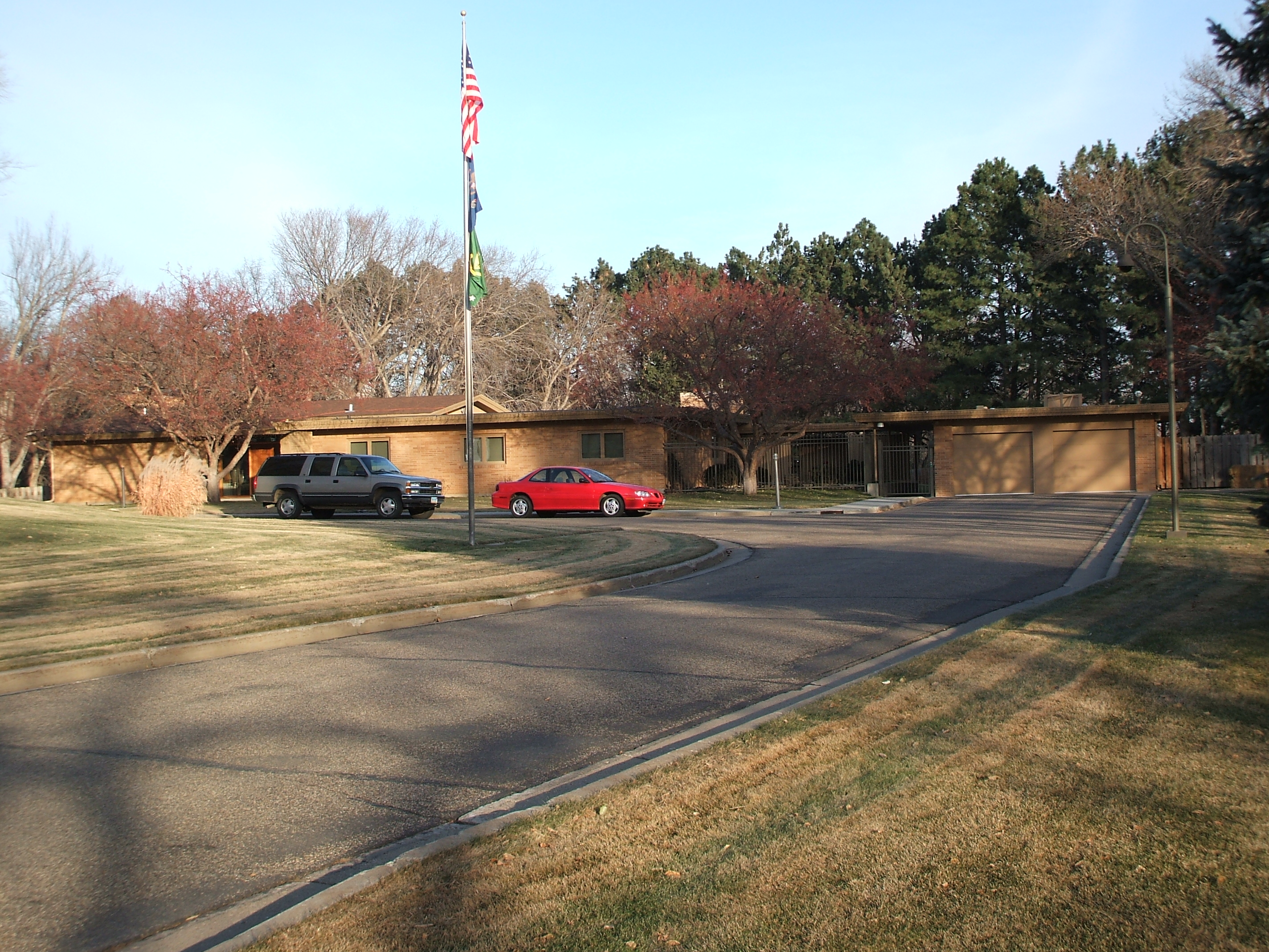 North Dakota Governor's Residence. Photo taken by Alexwcovington 26 November 2006. Résidence du gouverneur du Dakota du Nord.